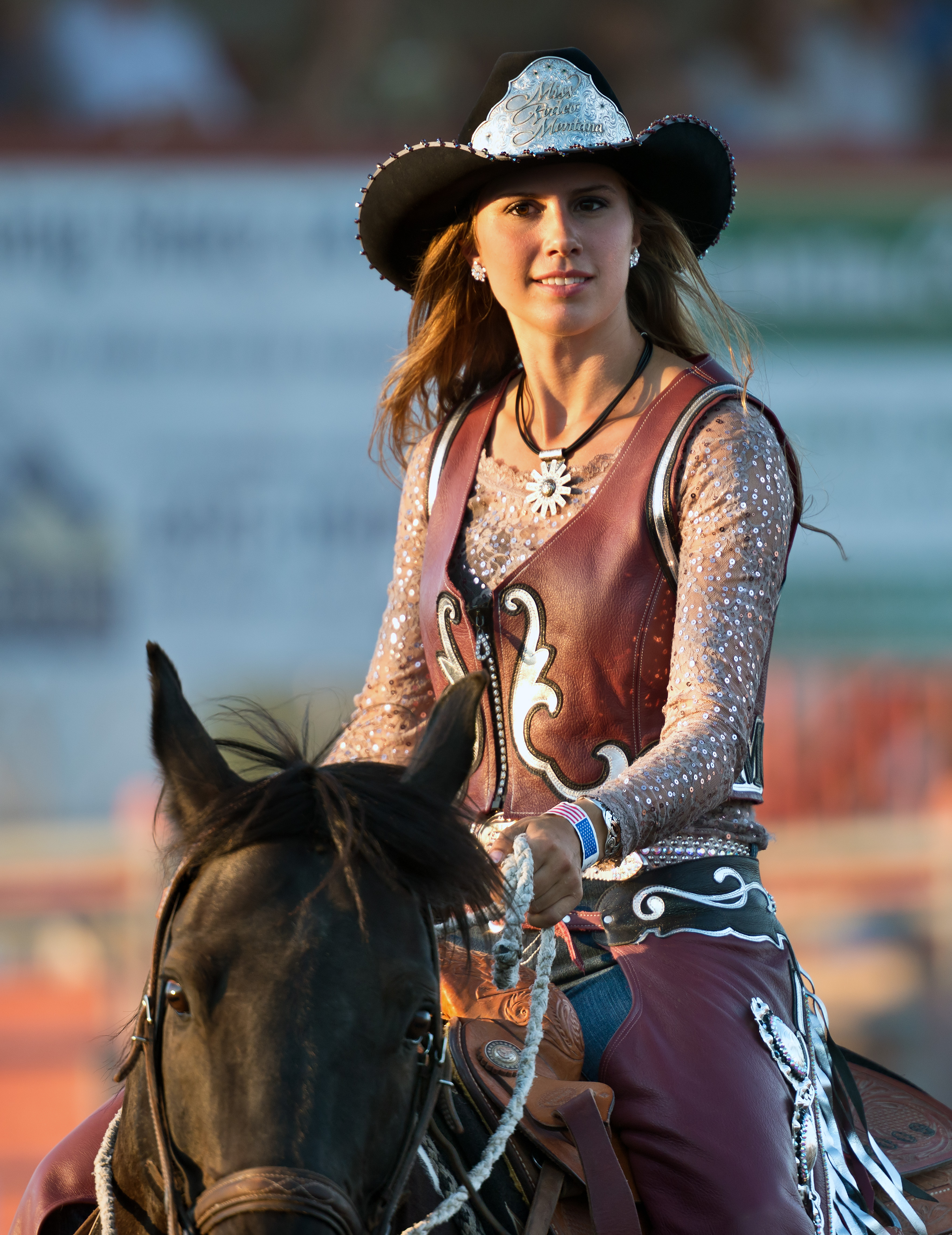 Last Chance Stampede and Fair 2012